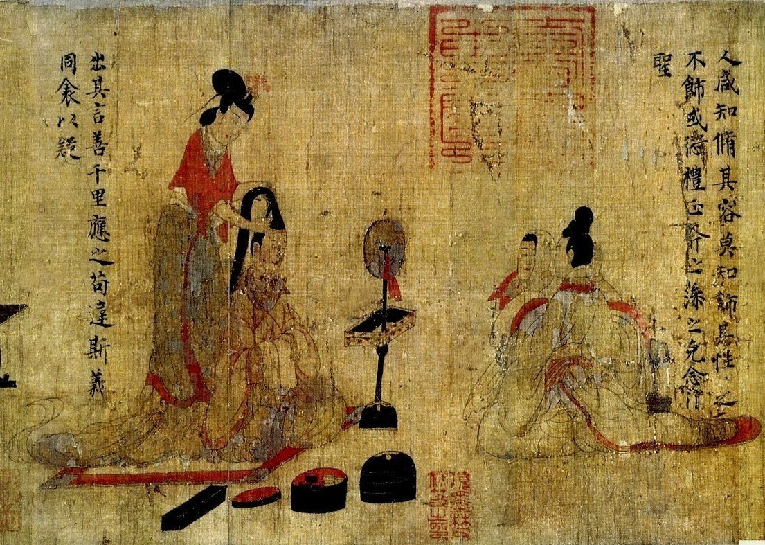 Scene 7 (The toilette scene) of the British Museum copy of the "Admonitions Scroll", attributed to Gu Kaizhi.